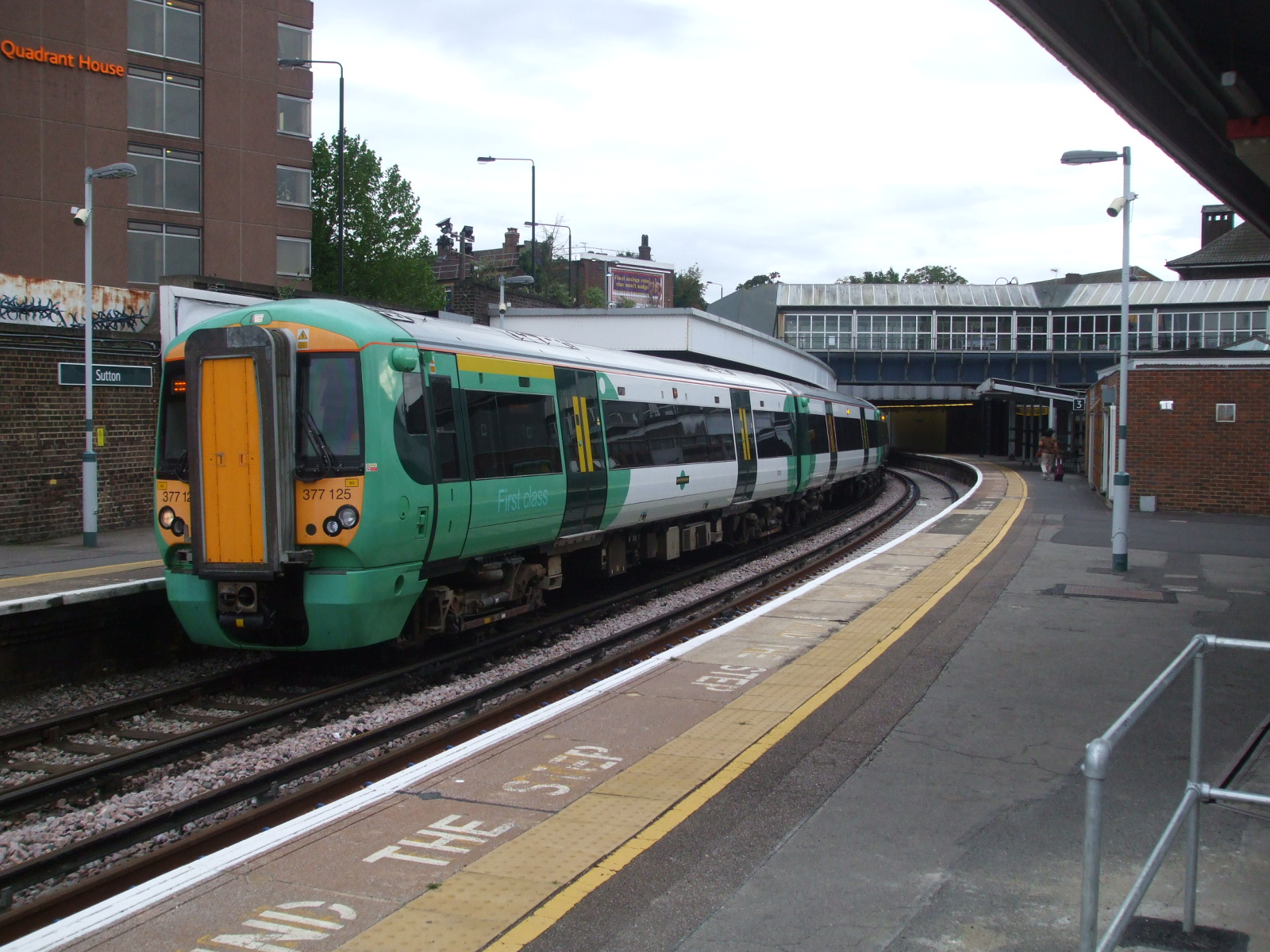 Class 377 unit 377125 at Sutton station platform 4, awaiting return to London Victoria. Platform 3 on the right is used by Epsom Downs trains (Monday to Saturday only).